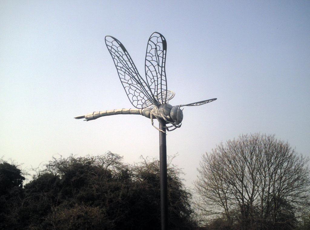 Dragonfly sculpture at Hounslow Heath, looking west, adjacent to the rangers' yard near the Staines Road main entrance. Made by Thrussell and Thrussell, Artist Metalsmiths.